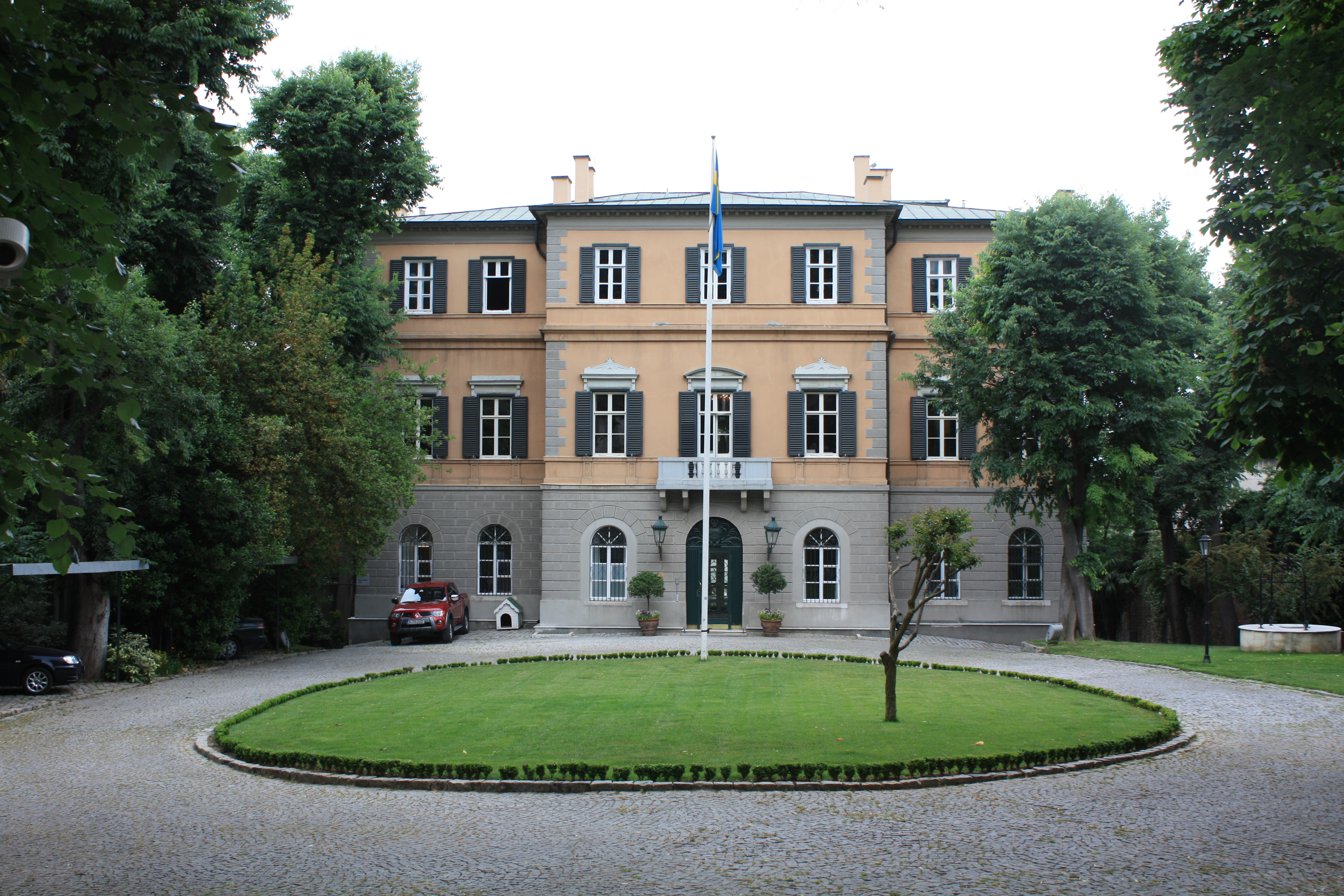 Consulate of Sweden (former embassy) on Istiklal avenue in Istanbul